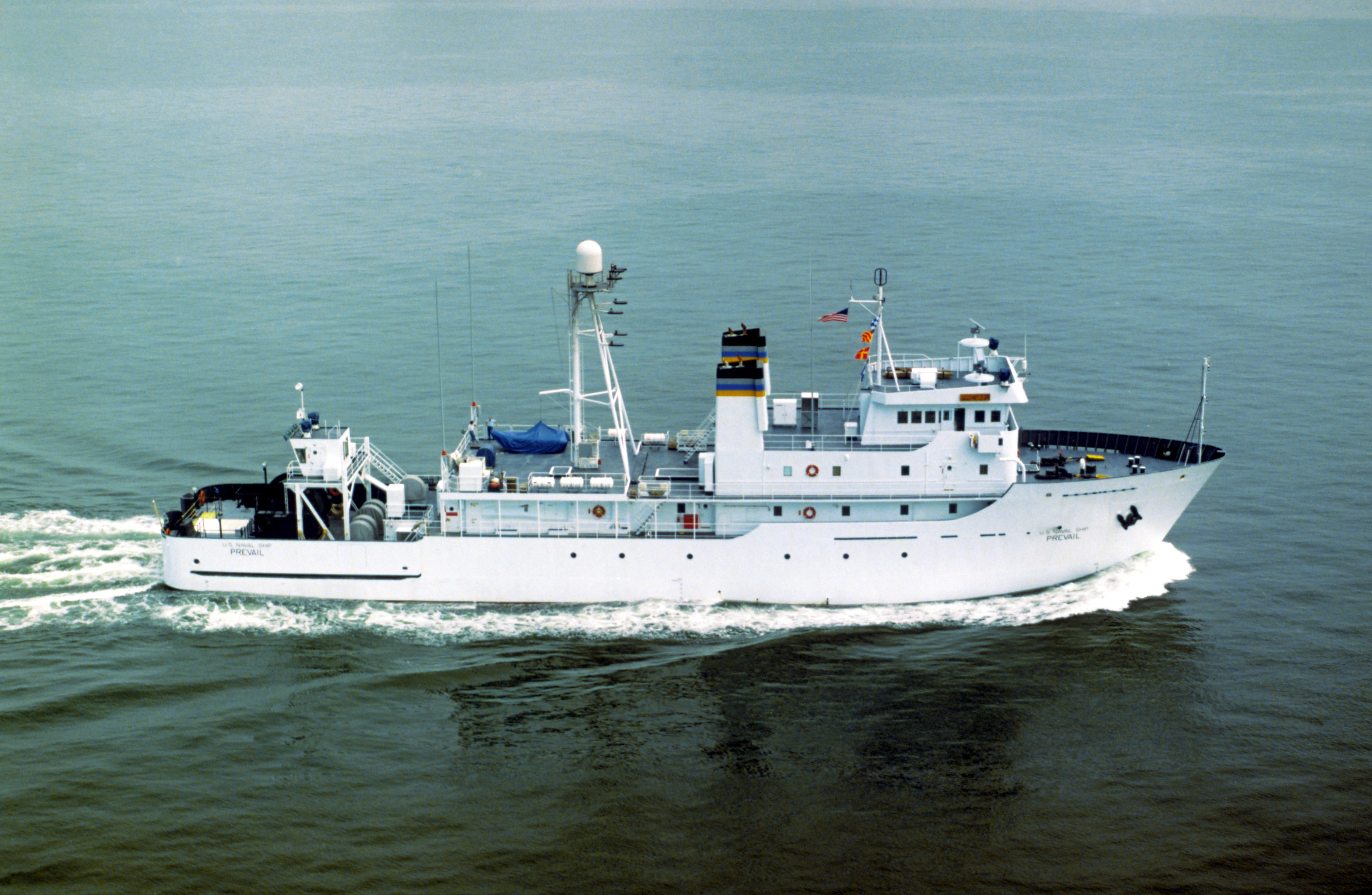 The U.S. Military Sealift Command ocean surveillance ship USNS Prevail (T-AGOS-8) underway in the Atlantic Ocean on 14 November 1986.